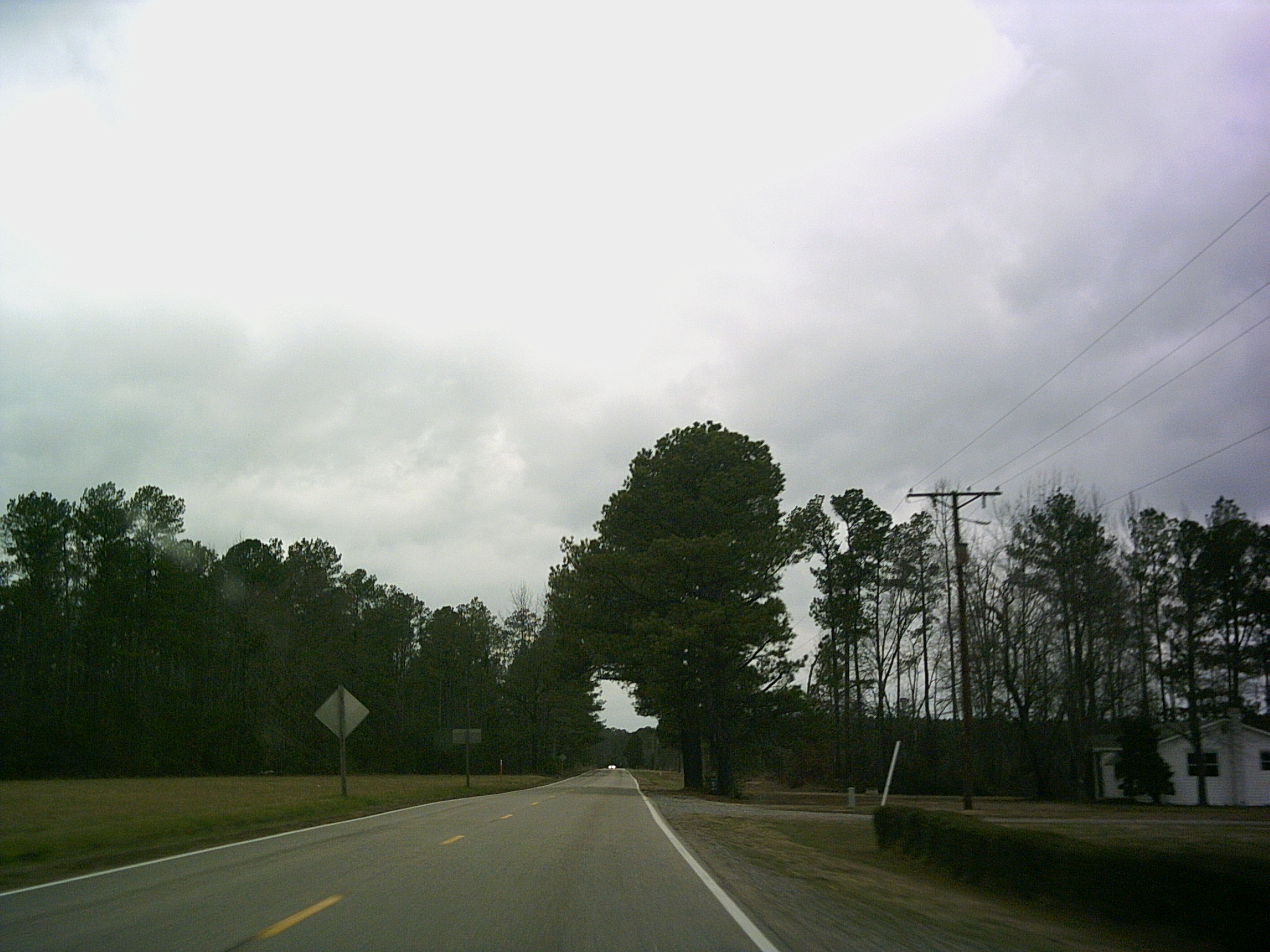 Image taken by me for Wikipedia.